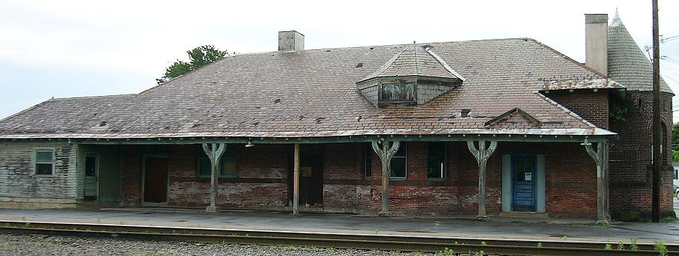 Old Rouses Point Train Station, Rouses Point, New York, USA